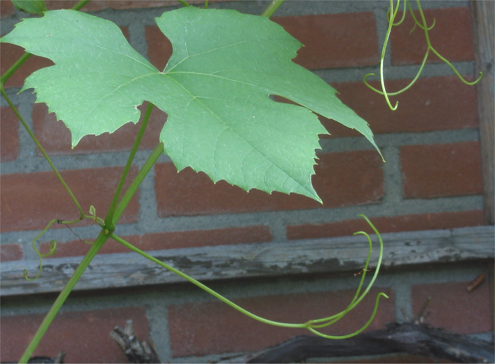 Vitis vinifera tendril.